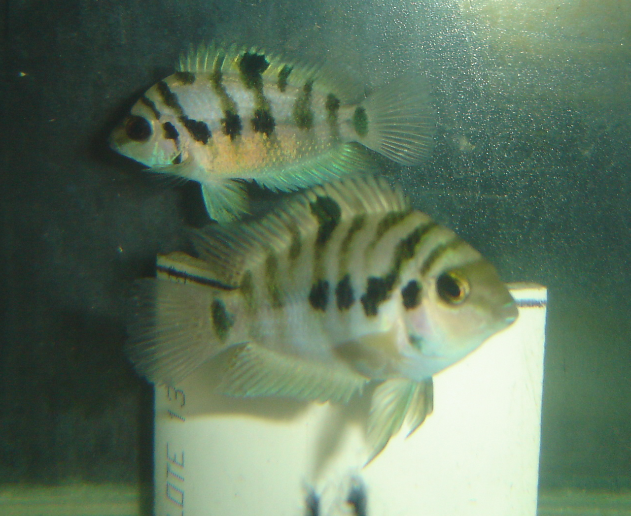 Young pair of Amatitlania kanna Schmitter-Soto, 2007. Collected in Bocas del Toro, Panama. Photographed in aquarium. The fish of above is the female. (Perciformes; Cichlidae; Heroini)